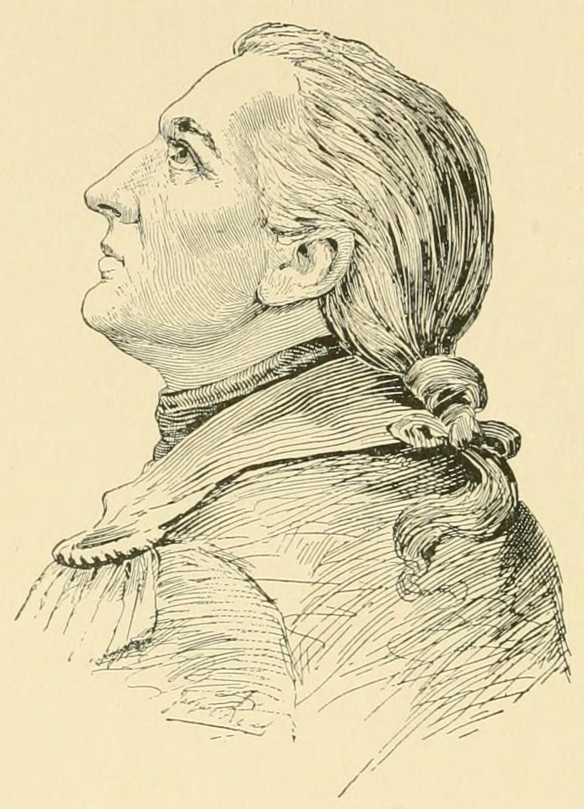 John Paterson, Major General in the Continental Army during the American Revolution